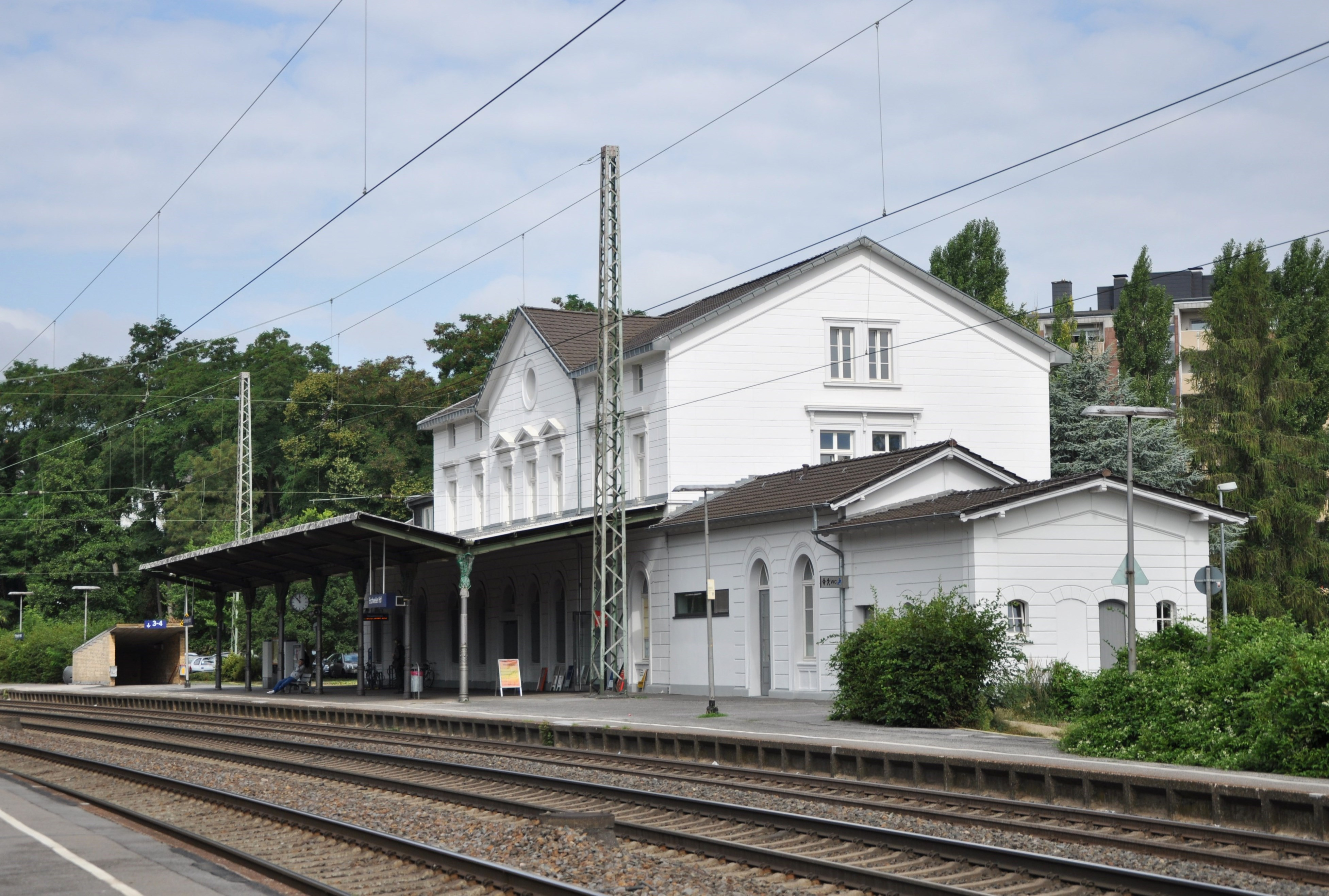 Eschweiler Hauptbahnhof station building after its refurbishment.